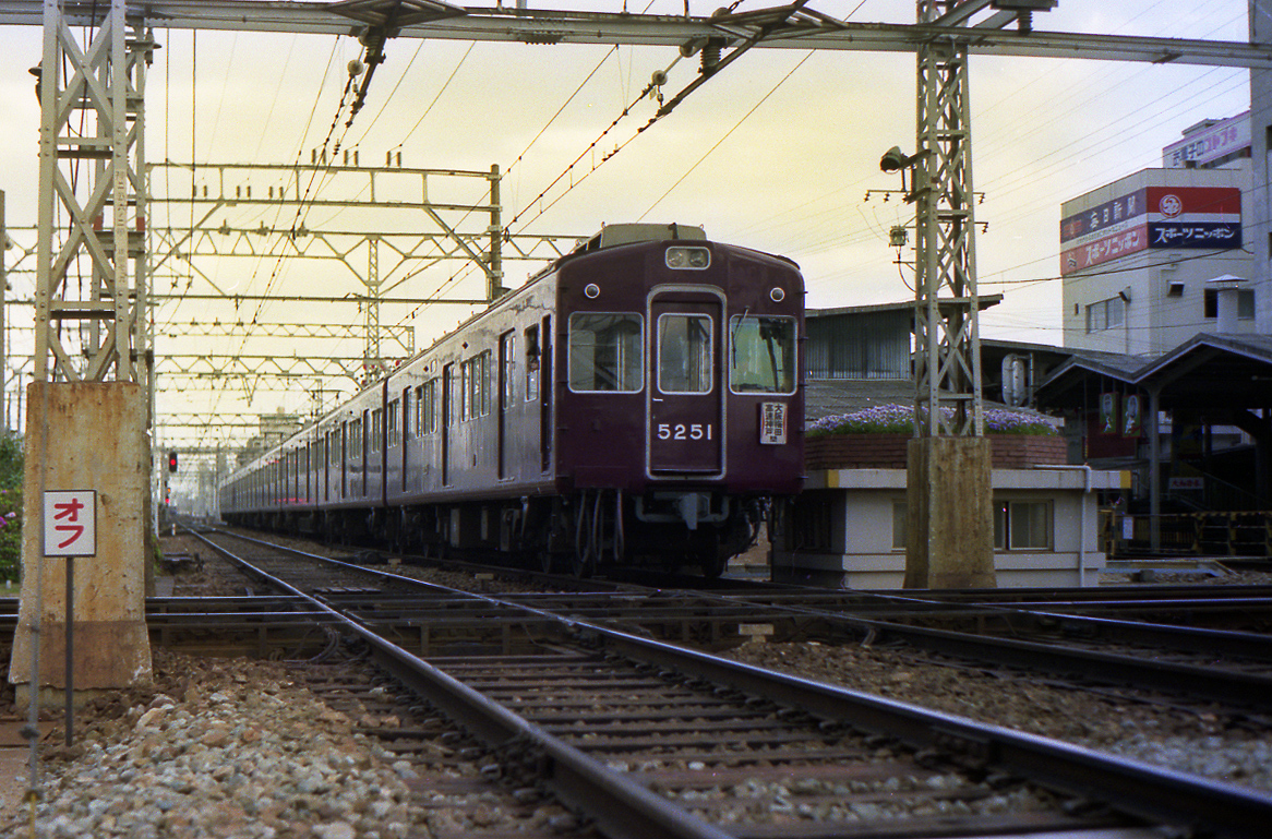 Hankyu Railway 5200 Series